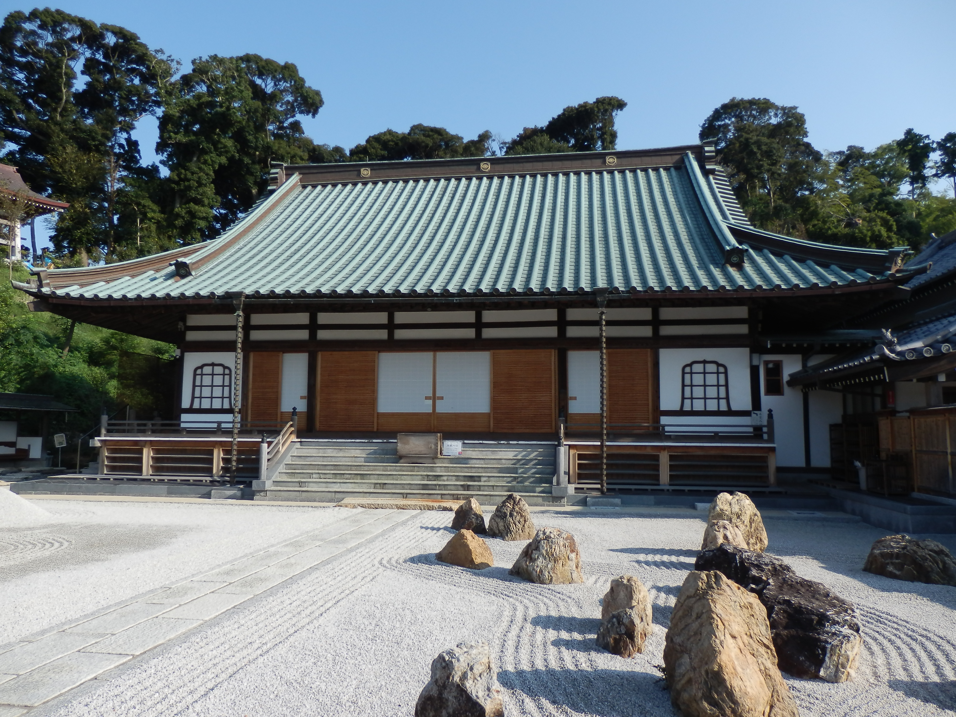 Ryōun-ji Temple, in Hamamatsu, Shizuoka Prefecture, Japan